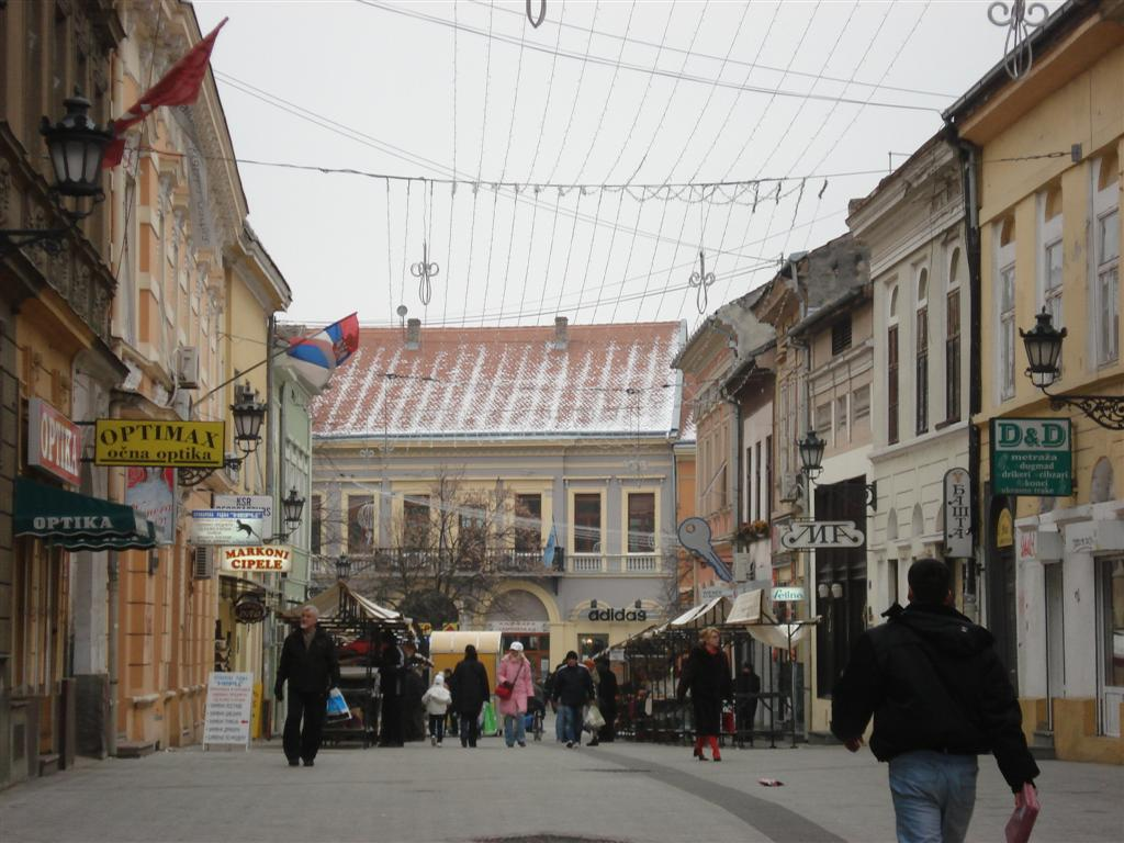 Center of Novi Sad